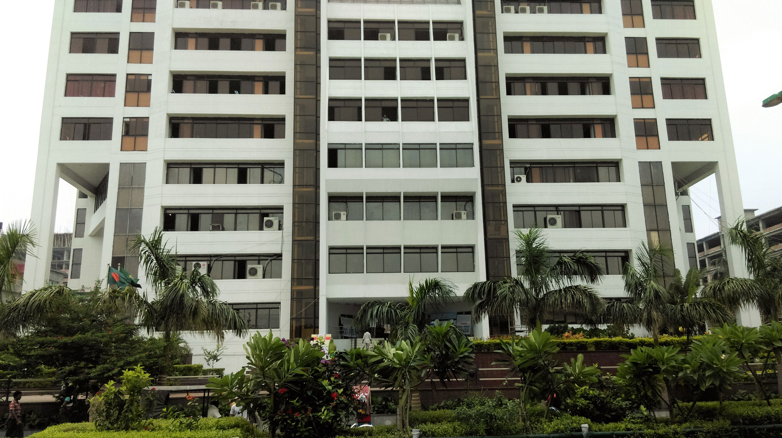 Rajshahi City Corporation established in 1976, is one of the major divisional city corporations of Bangladesh.